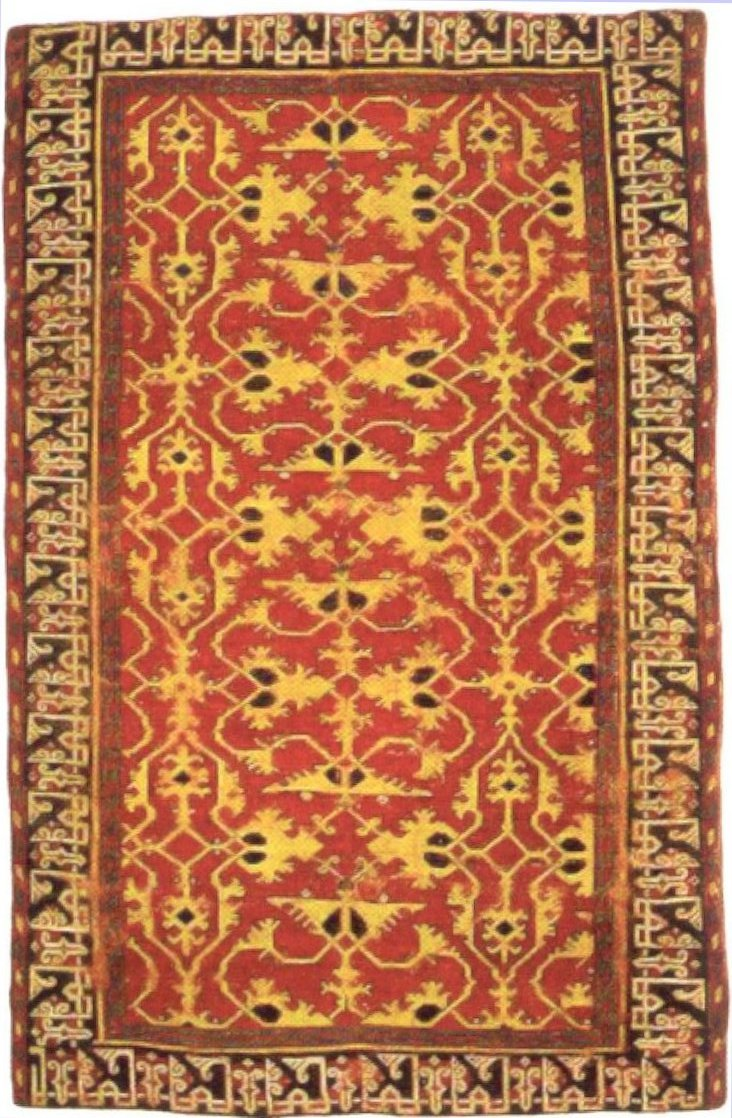 Western Anatolian knotted woll carpet with 'Lotto' patern, 16th century, Saint Louis Art Museum